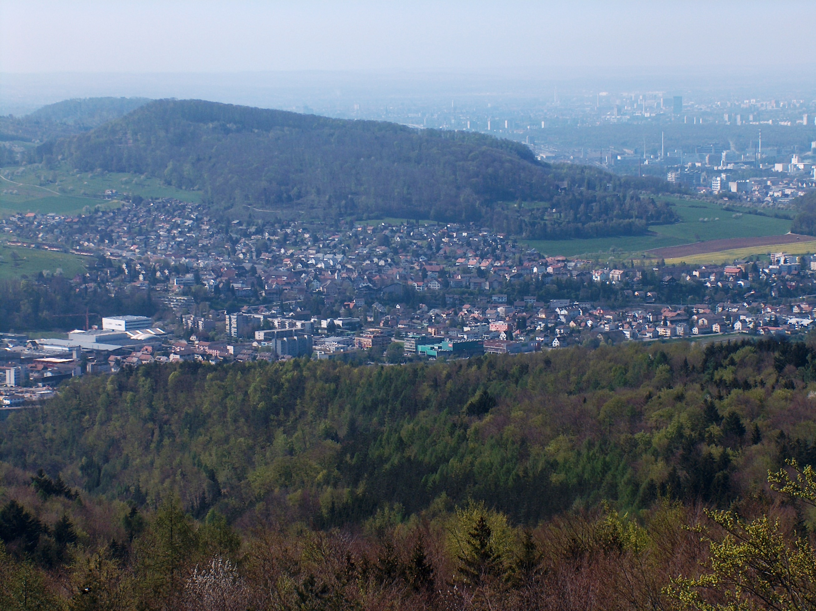 View over Frenkendorf from lookout at the top of Schleifenberg, Liestal